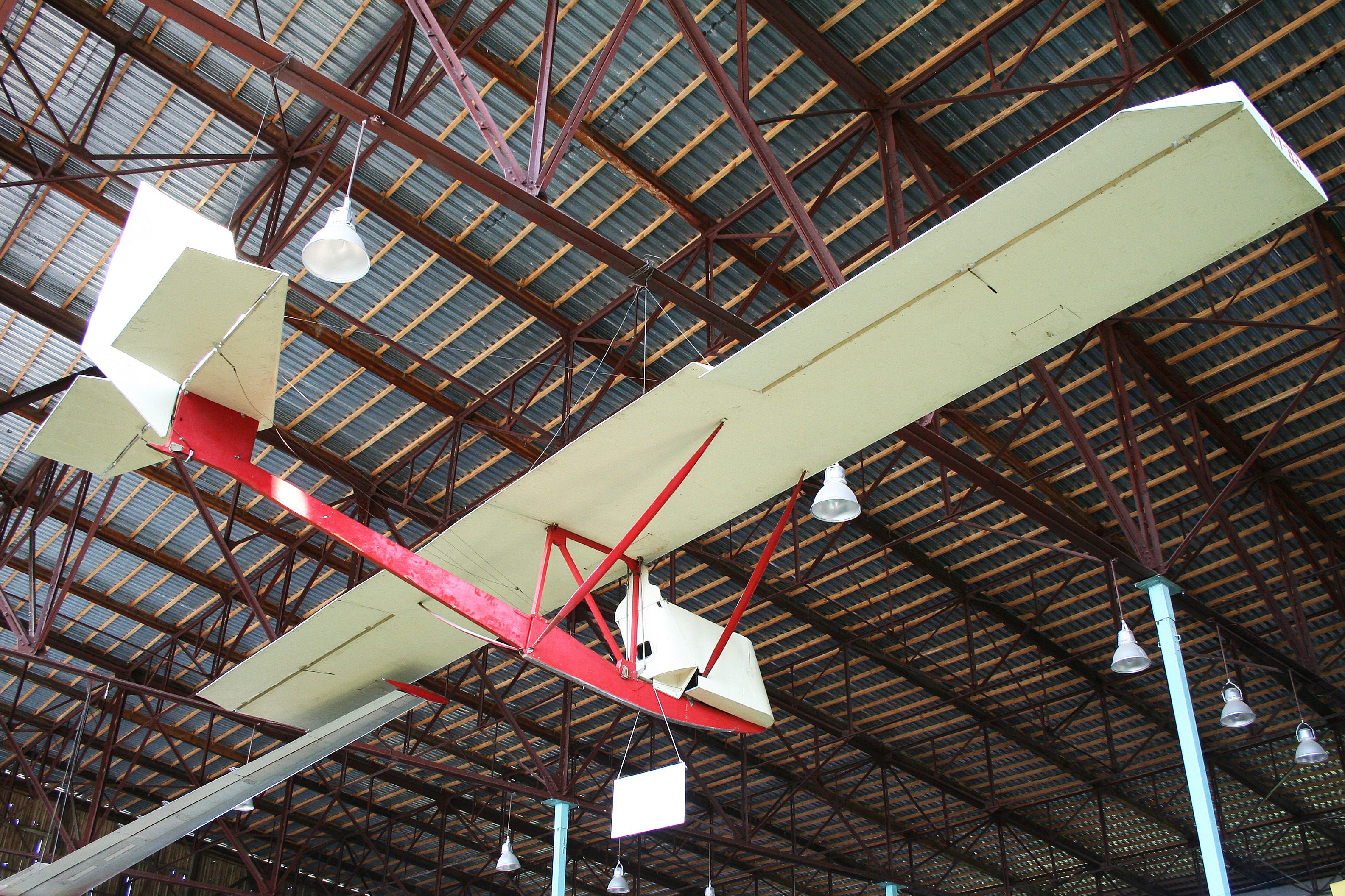 The A-1 was a single seat training glider built from 1930. Some 3,000 of various models were built. This example is displayed suspended in the original display hangar. Russian Air Force Museum. Monino, Russia. 13-8-2012